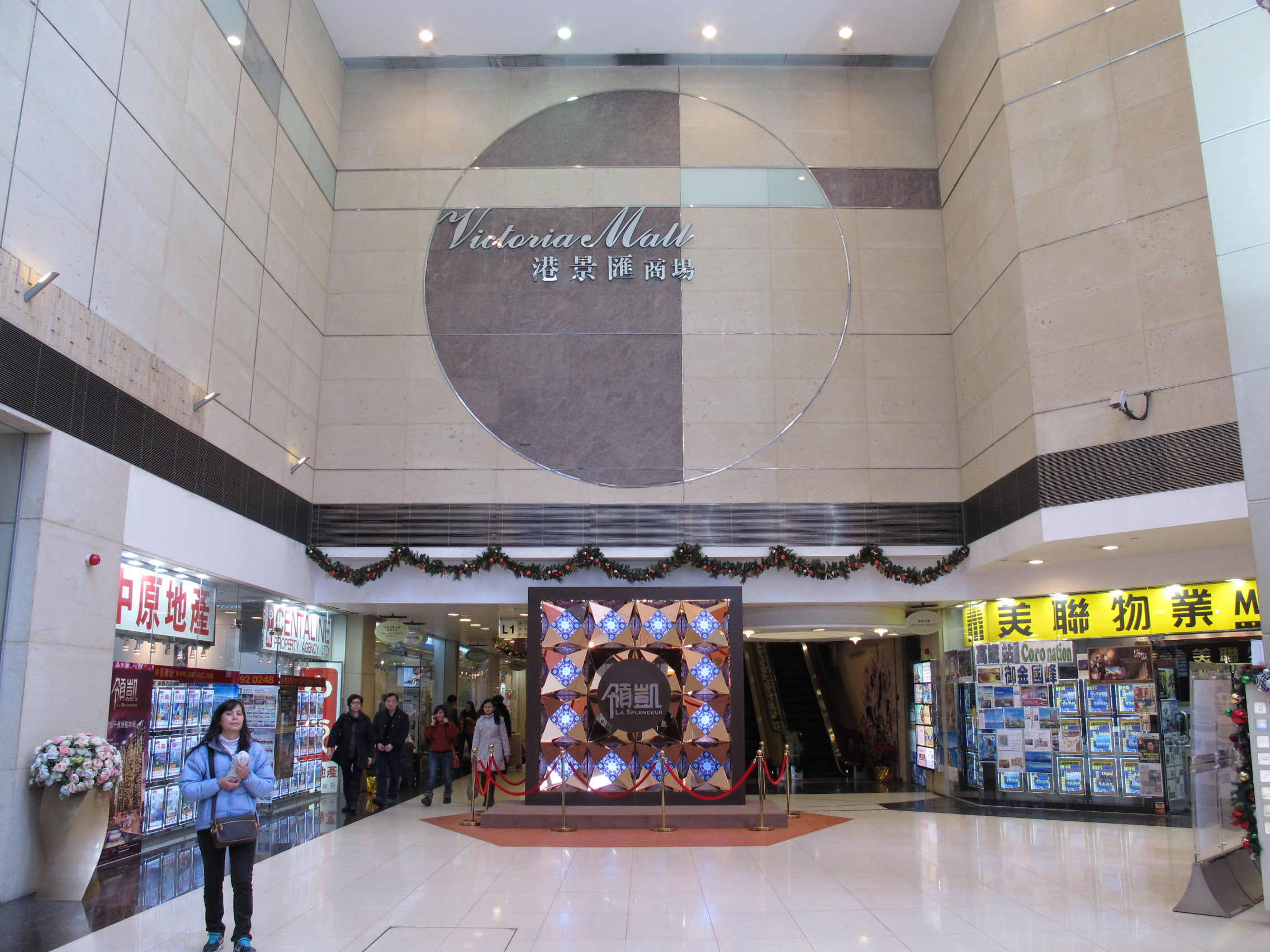 The Victoria Towers Entrance Void